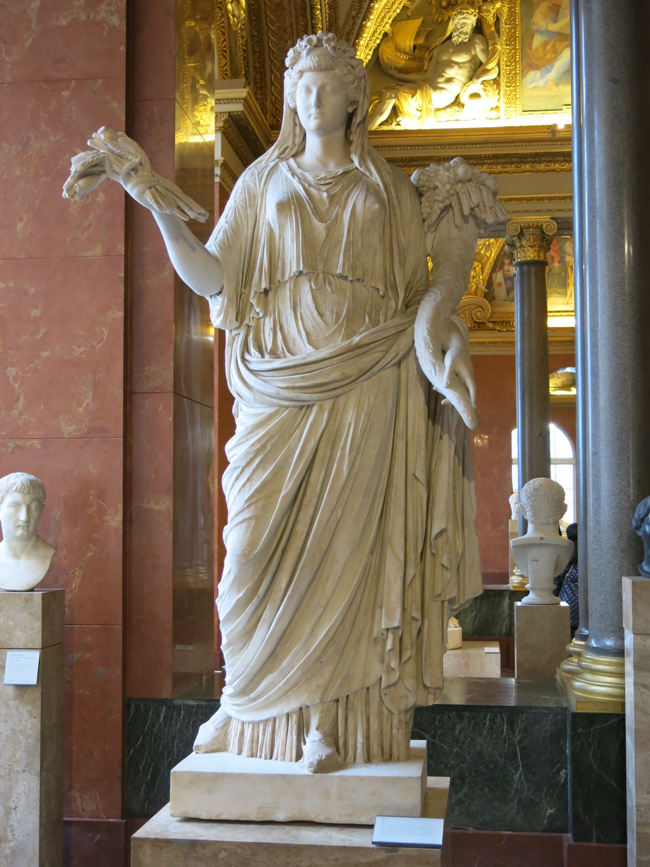 Livia (58 BC-AD 29) wife of the emperor Caesar Augustus, as Ops (fertility Roman deity) in Louvre museum (Paris, France).